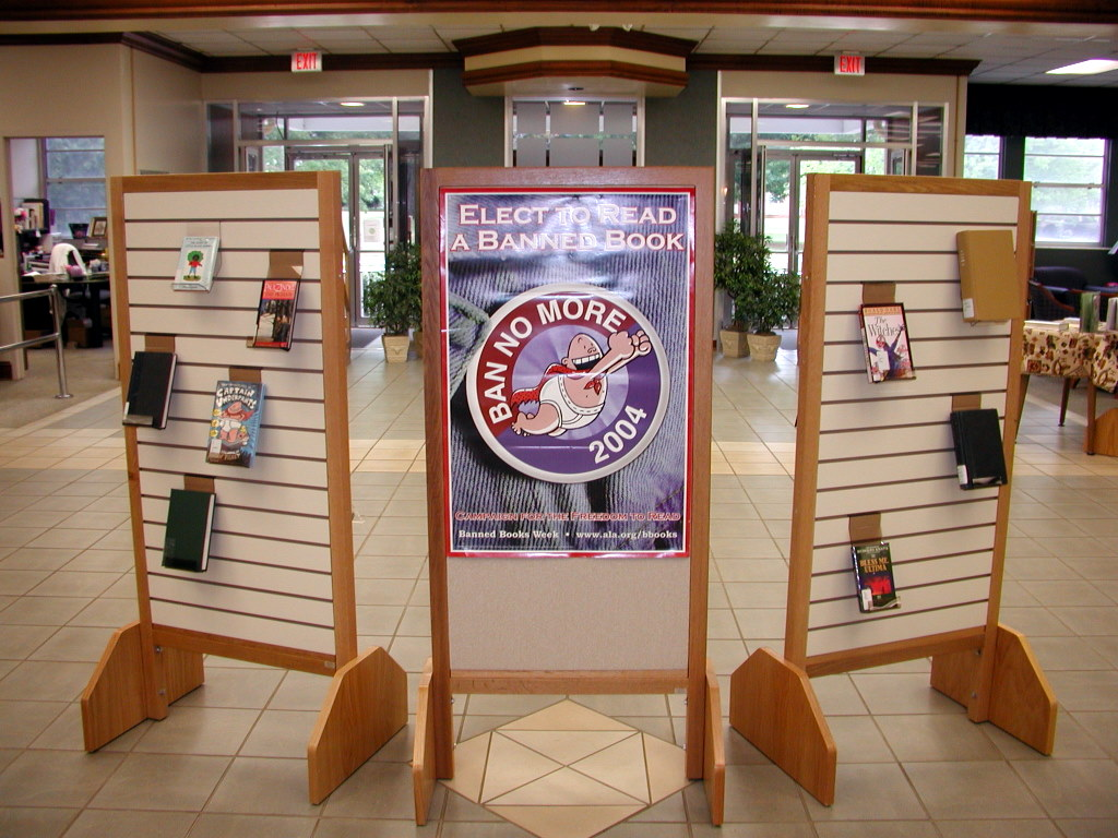 Carmichael Library celebrates Banned Books Week with our Main Floor display